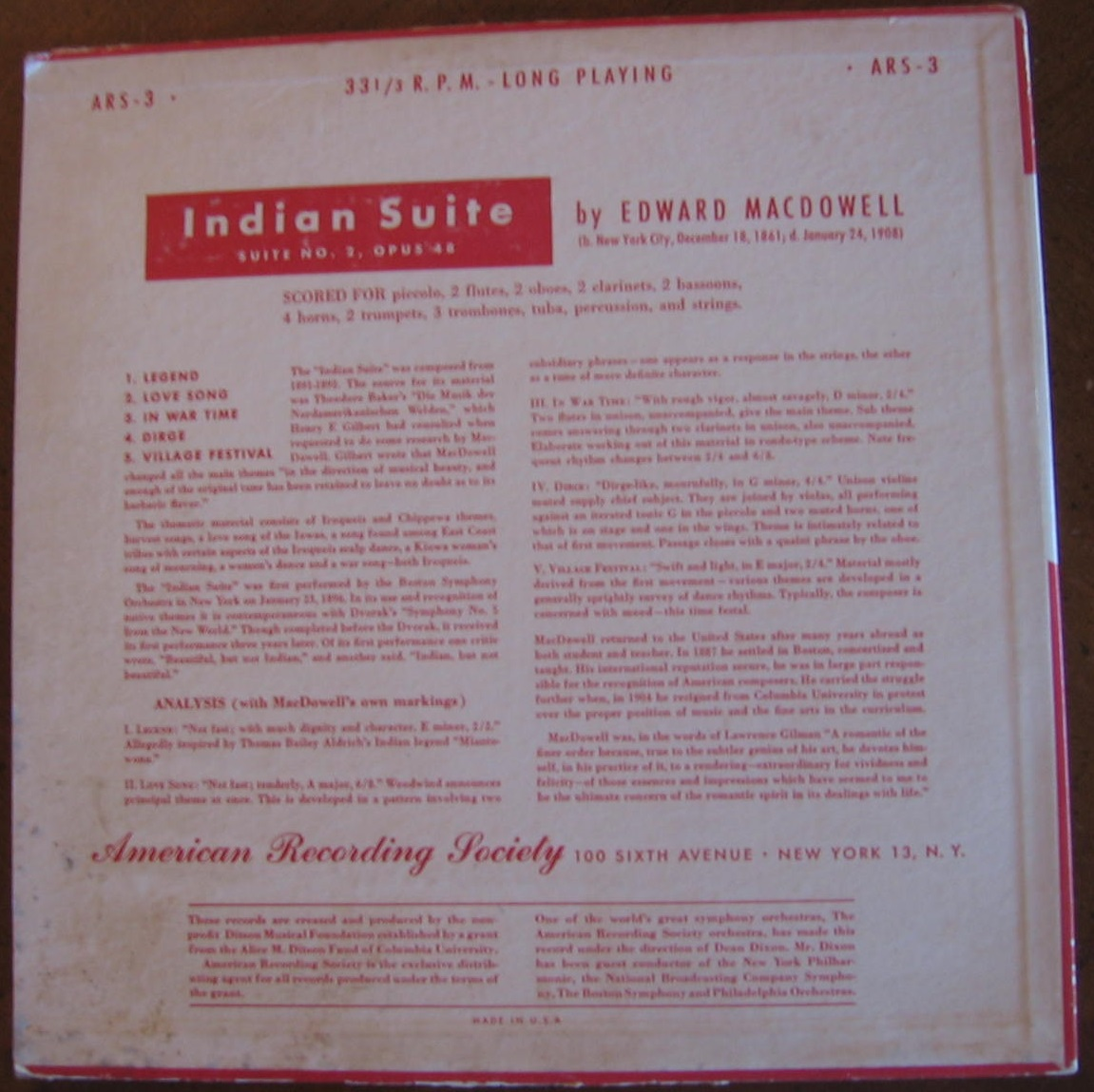 Indian Suite Opus 48 by Edward MacDowell American Recording Society ARS-3 back cover LP Dean Dixon, Condustor